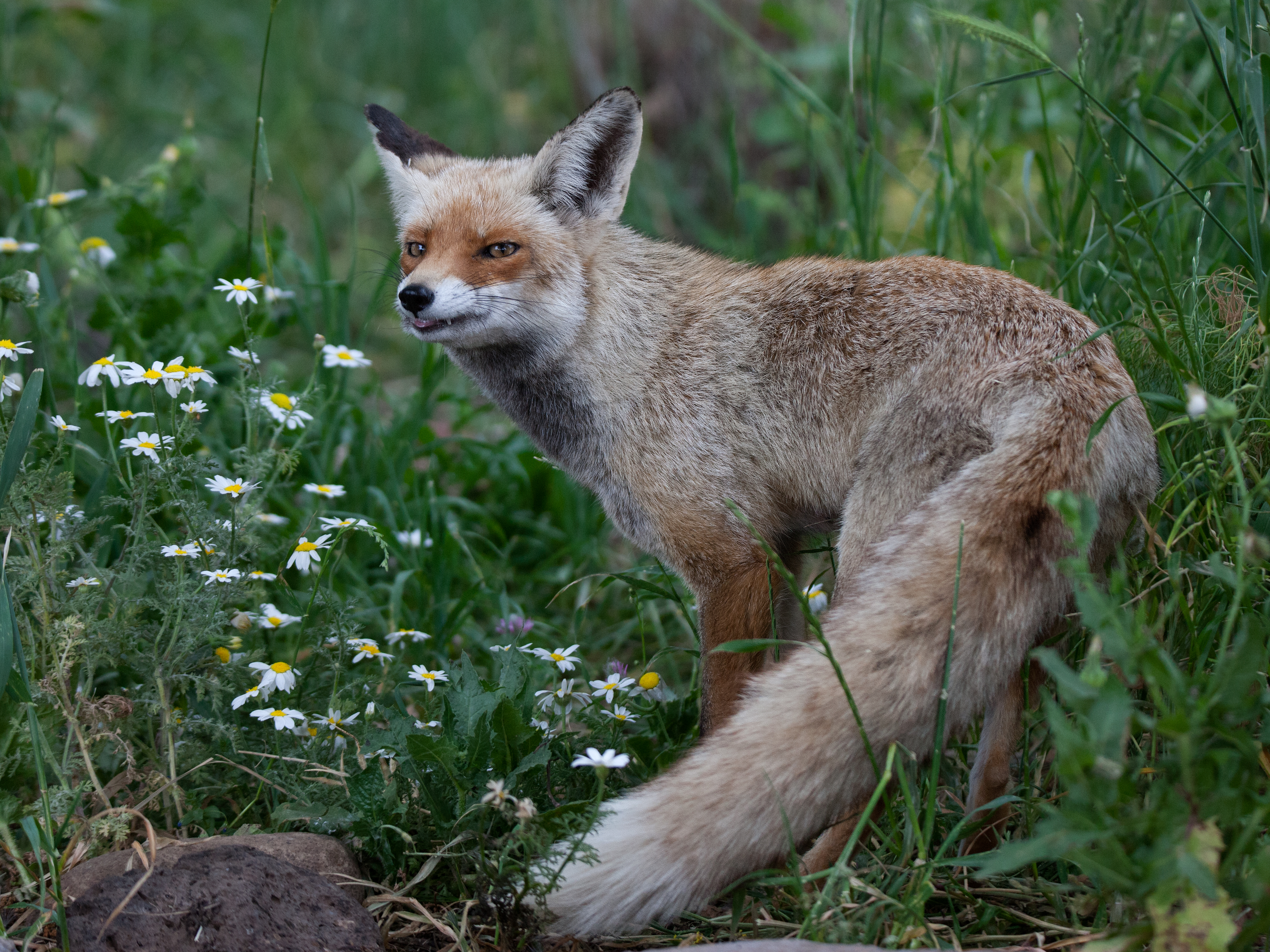 Red fox at Gamla nature reserve